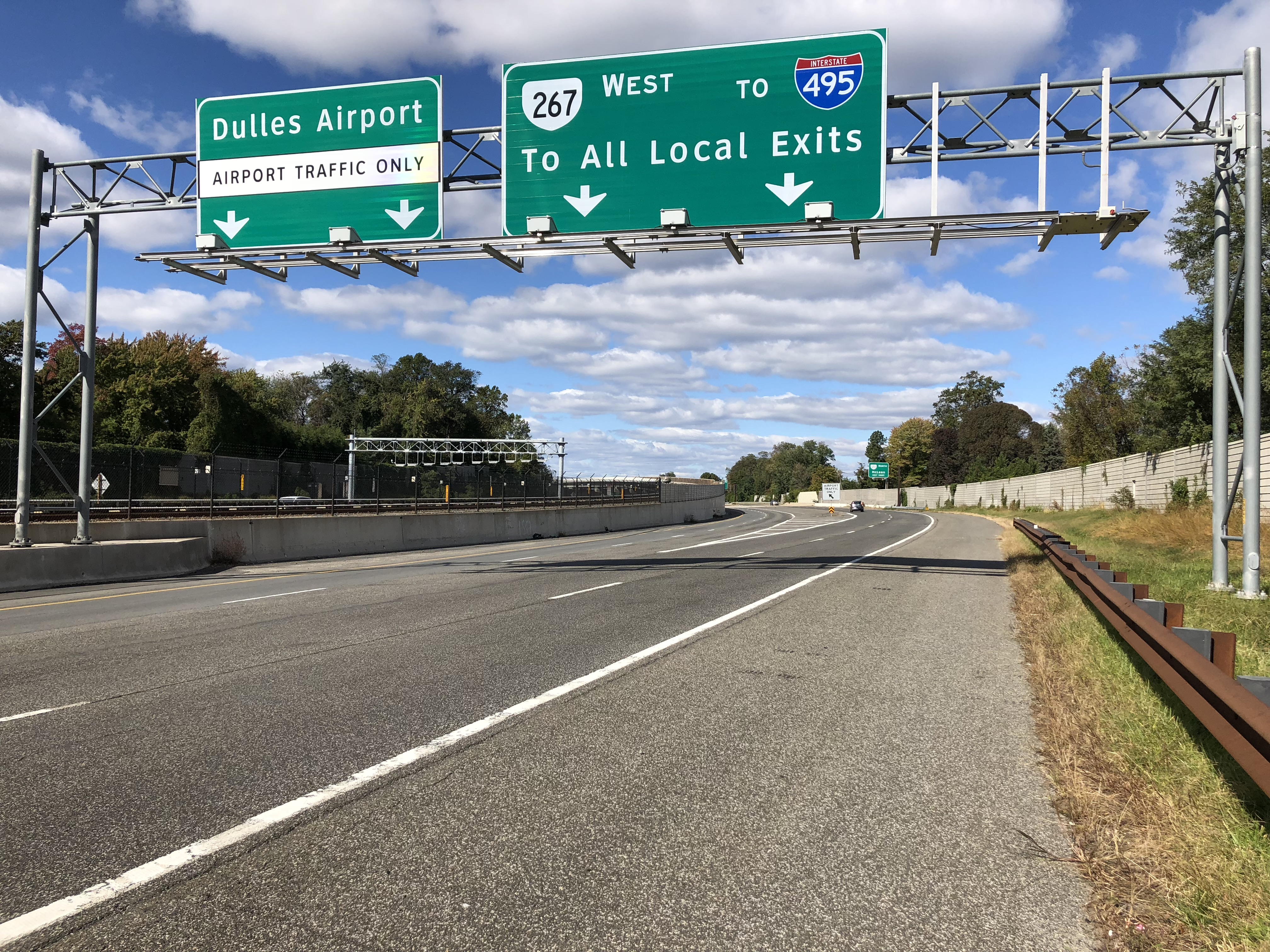 View west along Virginia State Route 267 (Dulles Toll Road) at the easternmost exit for the Dulles Access Road in McLean, Fairfax County, Virginia